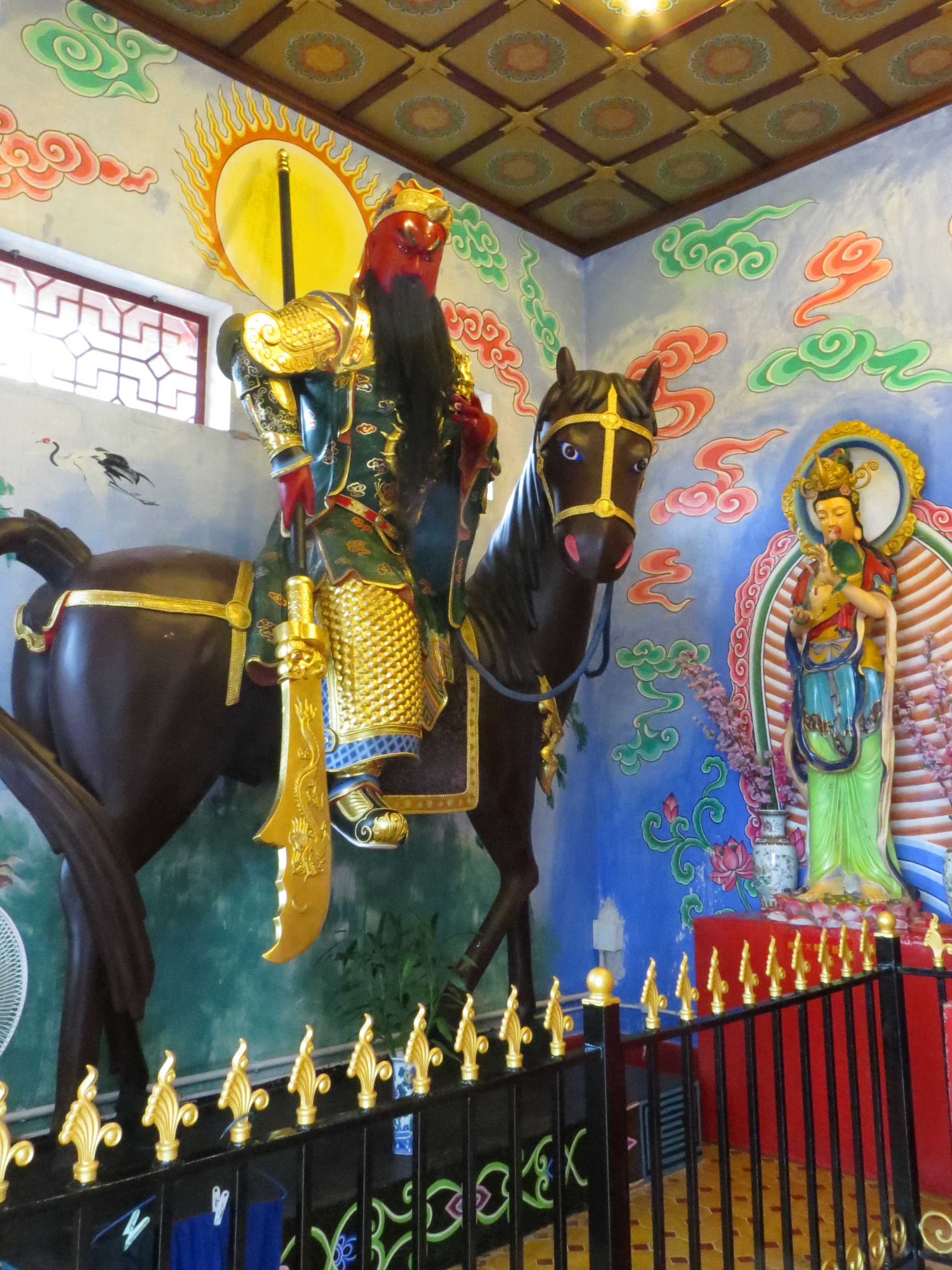 Guan Yu statue in Cundi Shrine,Ten Thousand Buddhas Monastery, Sha Tin, Hong Kong.